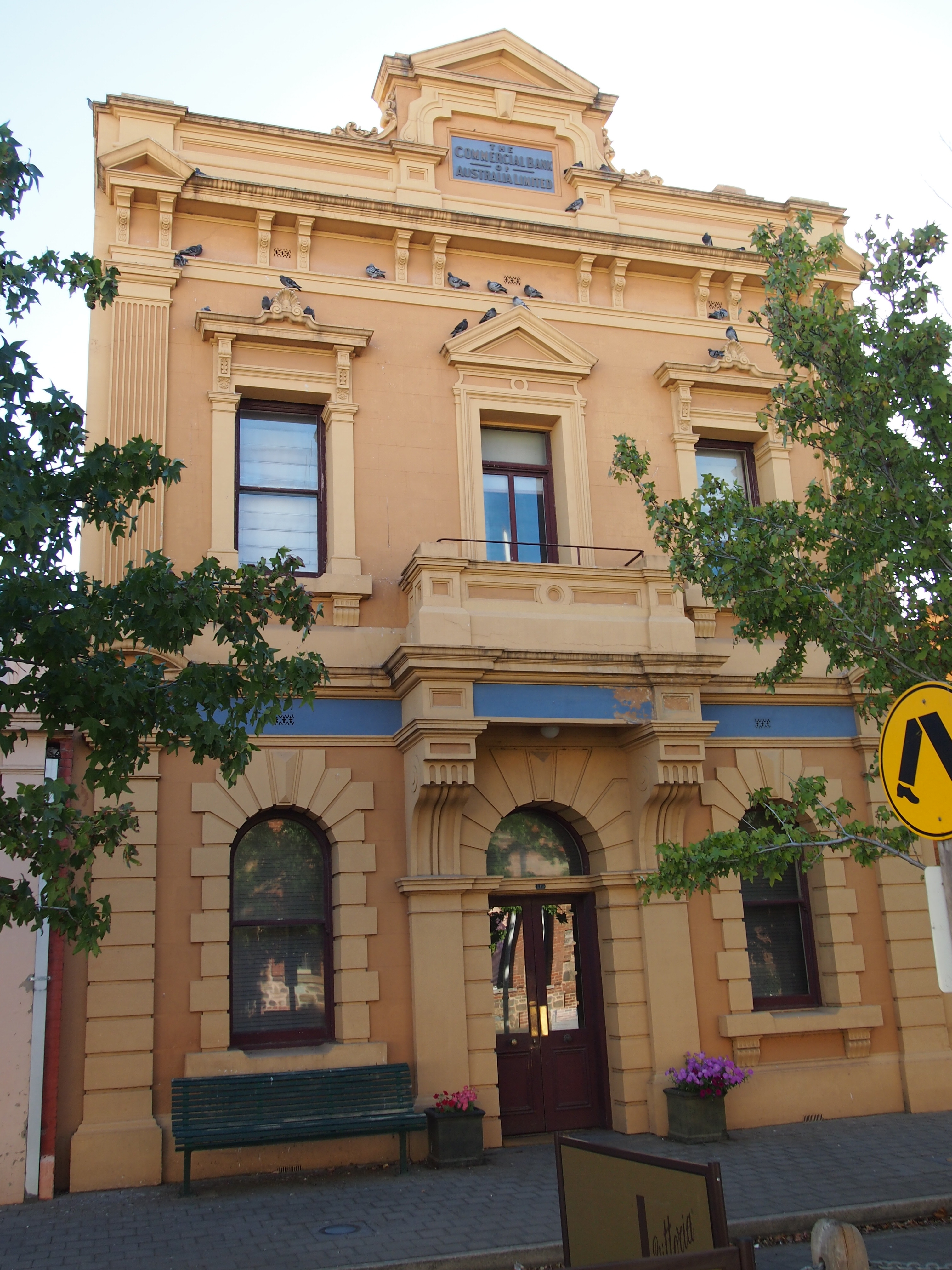 The offices of the SA Maritime Museum, are located in the former Commercial Bank building, Lipson Street, built in 1888. Port Adelaide. Original filename = P2040945.JPG